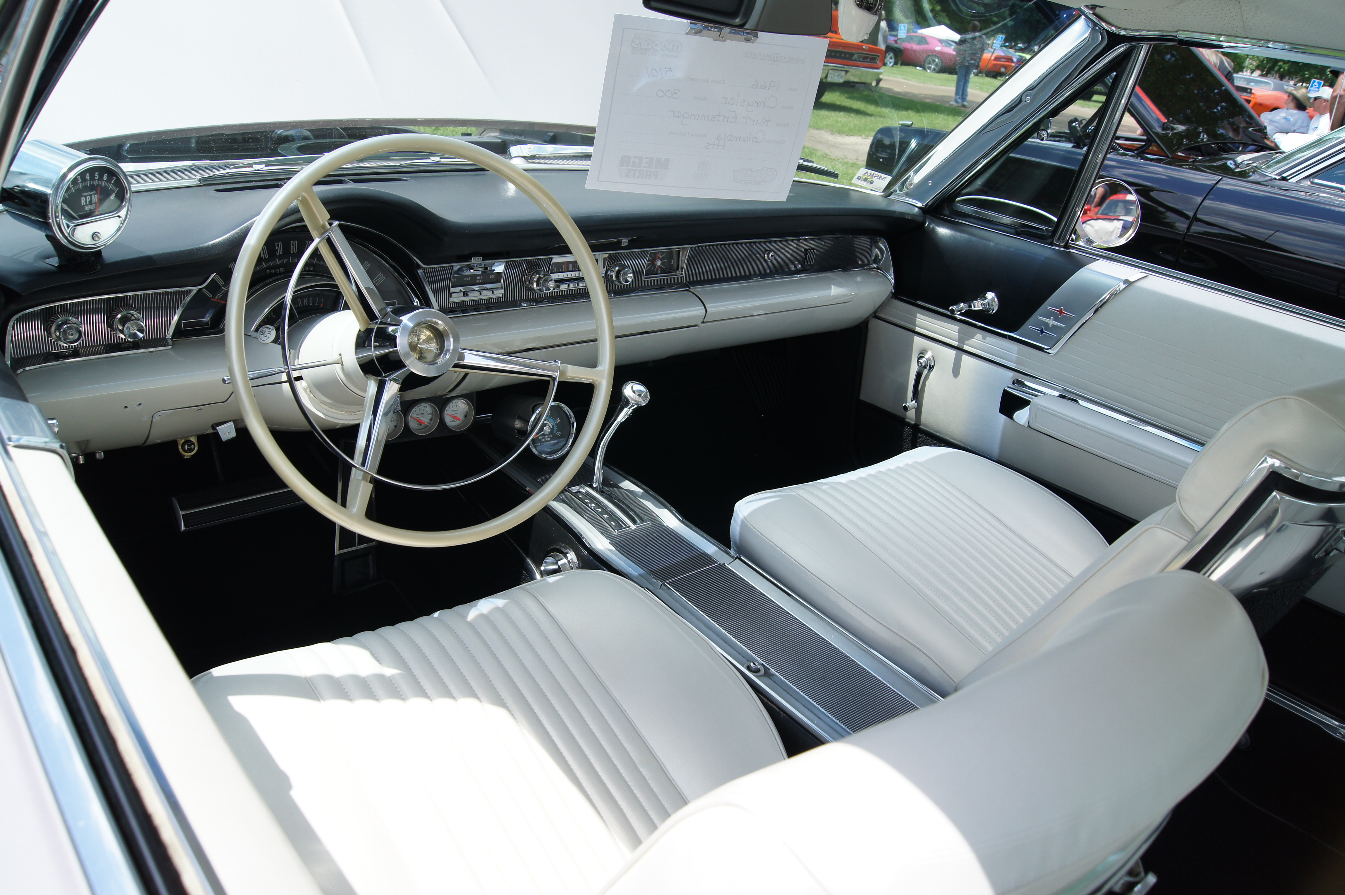 28th Annual Midwest Mopars in the Park June 2, 2012